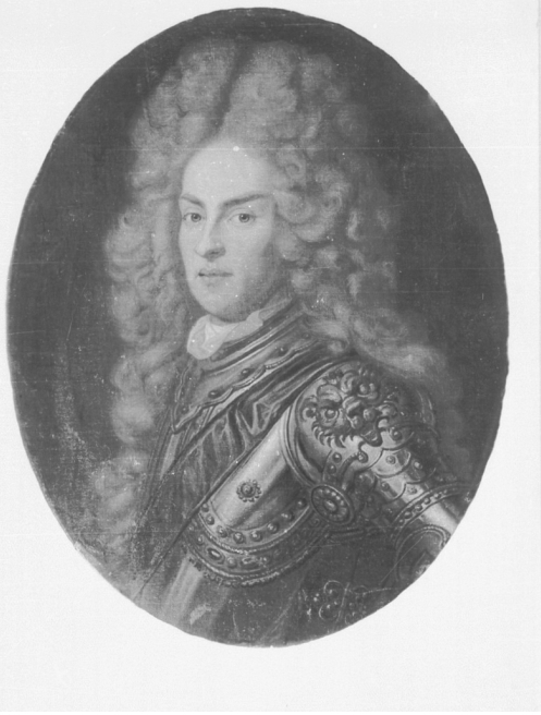 Portrait of John George IV, Elector of Saxony (1668-1694)